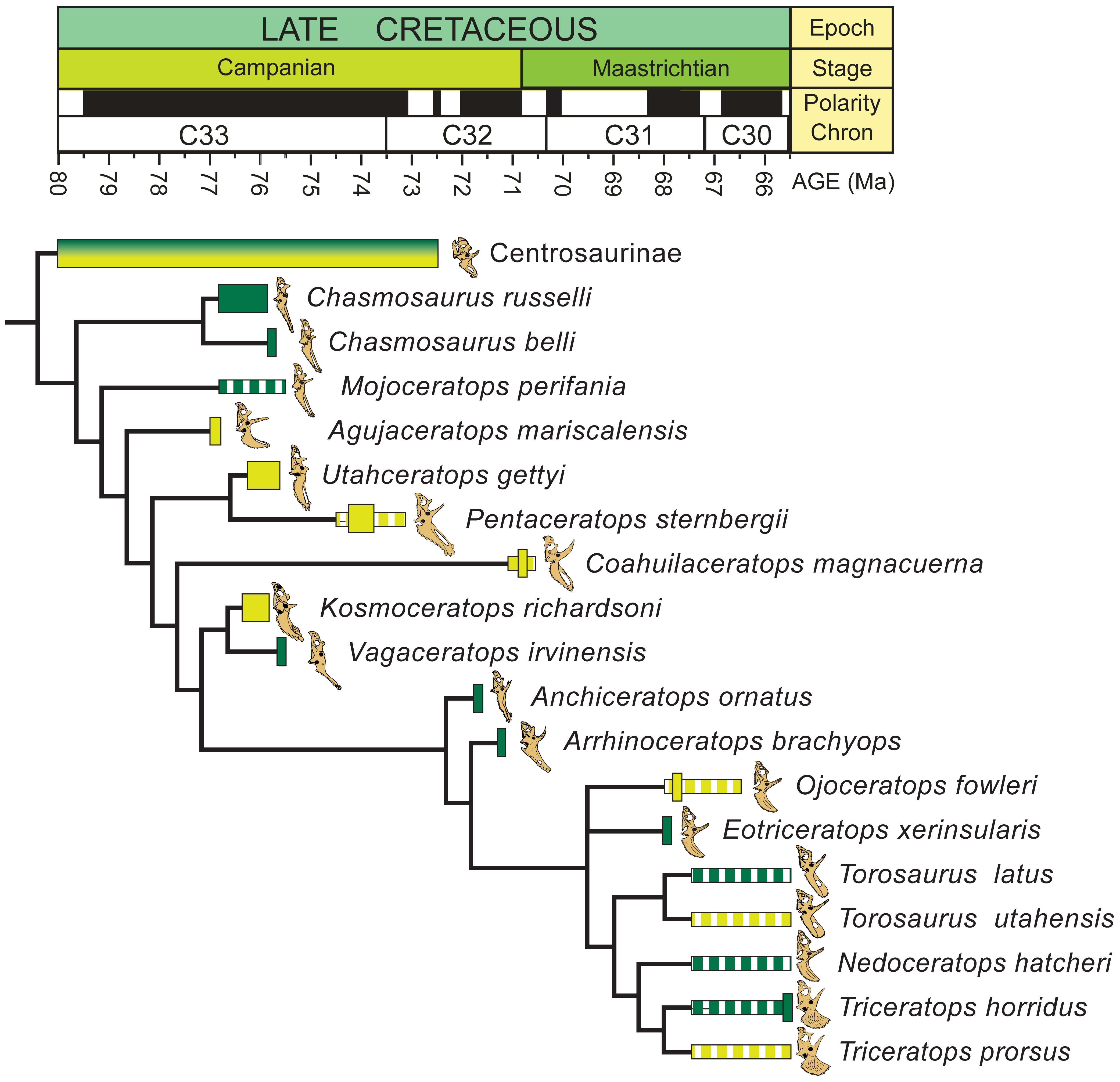 Original caption: "Phylogenetic relationships of Utahceratops gettyi n. gen et n. sp., and Kosmoceratops richardsoni n. gen. et n. sp. within Ceratopsidae. Strict consensus of 3 most parsimonious trees (tree length = 263; CI = 0.669; RI = 0.790; RC = 0.529) of an analysis of 148 characters across 7 non-chasmosaurines and 18 chasmosaurines (more than doubling number of characters and taxa relative to any previous analysis of clade). Outgroup taxa and centrosaurines have been collapsed for clarity. Species durations based on first and last documented stratigraphic occurrences correlated where possible to radiometric dates. Solid bars denote species durations known with high degree of confidence. Striped bars denote species durations known with lesser degree of confidence. Solid bars overlaying striped bars indicate that the stratigraphic context of some specimens of the indicated taxon is well established (solid bar) whereas that of others is not (striped bar). Taxa listed in dark green were recovered from the northern portion of the Western Interior; taxa listed in light green are from the southern WIB. See Text S1 for further results of the phylogenetic analysis, including Bremer support and bootstrap values. Stratigraphic data based on Roberts et al. [29] and Sampson and Loewen [12]."